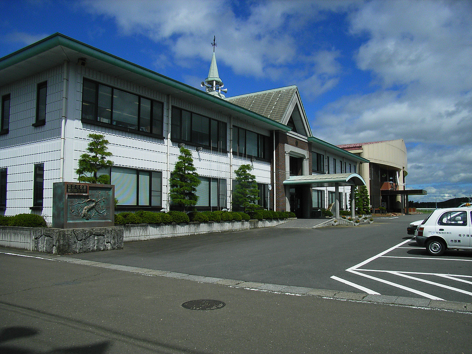 Uguisuzawa branch of the Kurihawa City. Kurihawa, Miyagi prefecture, Japan.